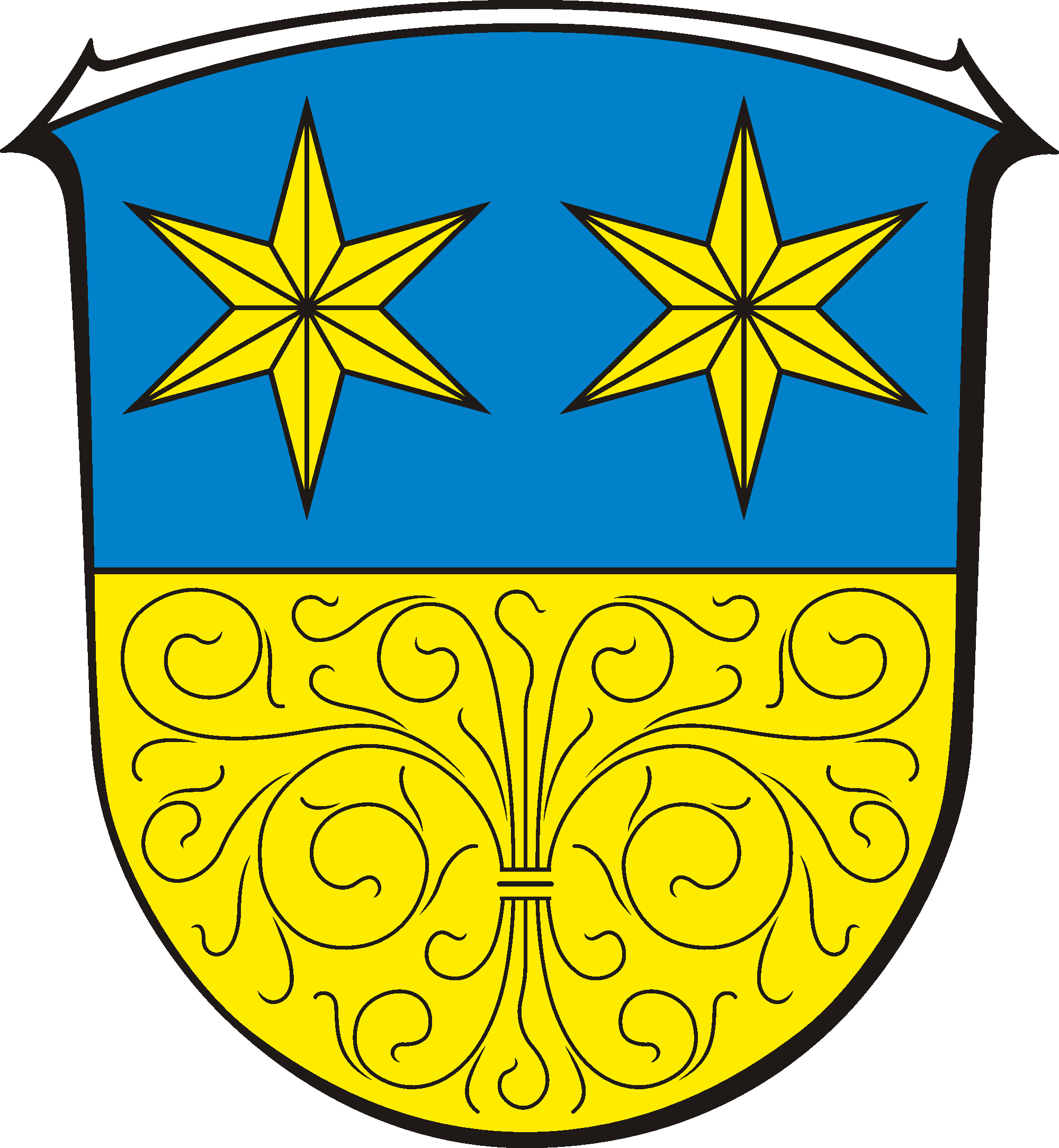 Coat of Arms of Michelstadt